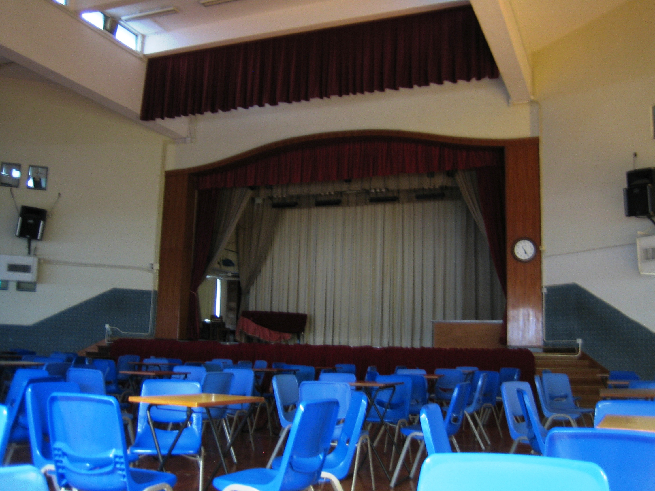 This image is the hall of SJACS campus, Hong Kong. If you have any questions about the licensing (like cc-by-sa, GFDL), or you want to republish the image without using the licensing shown as below, you are welcome to leave a message on the User Talk Page of my Chinese Wikipedia account. 中文（香港）: 這照片是香港九龍聖若瑟英文中學現有校舍禮堂。 如你對這照片版權許可協議 (例cc-by-sa, GFDL) 有疑問，或你想把照片不用以下的版權協議轉載，歡迎你到我在中文維基百科的用戶對話頁留言。